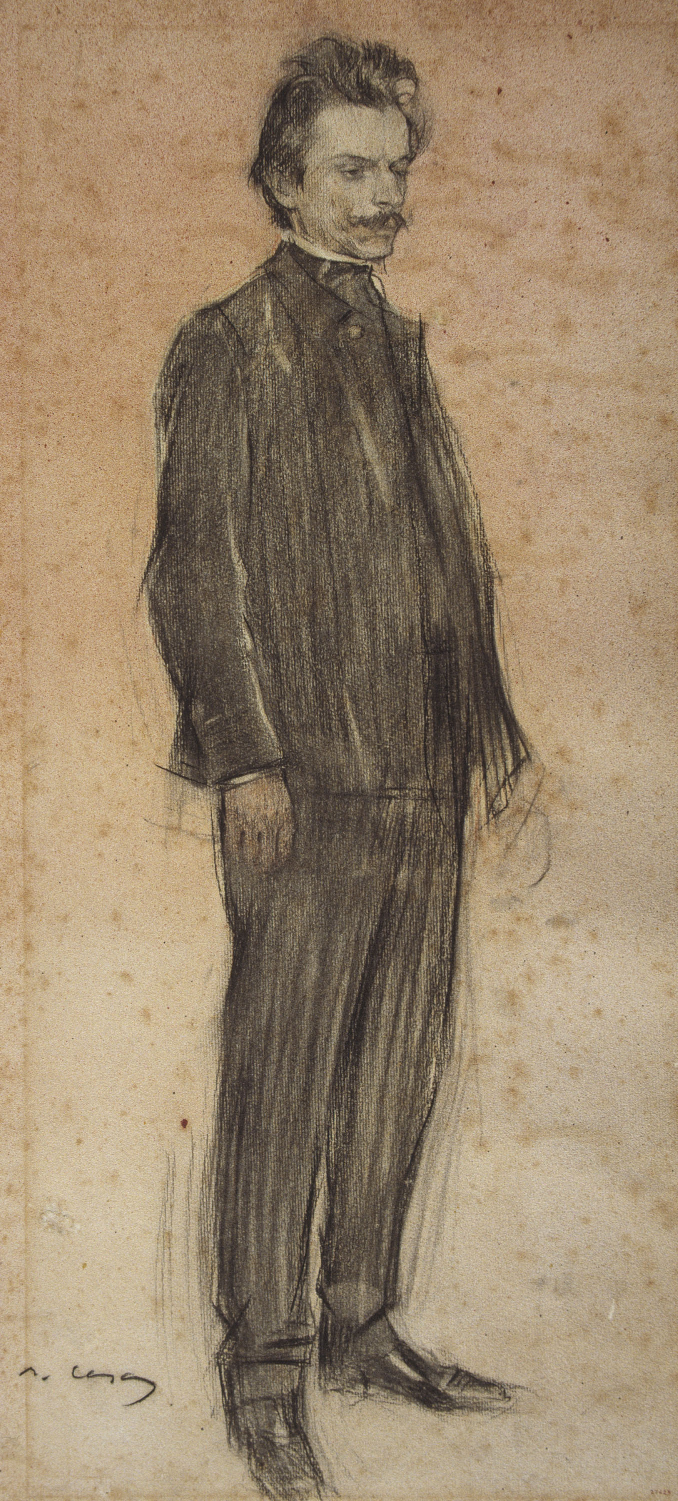 Portrait by Ramon Casas conserved at MNAC in Barcelona. Imagen 104